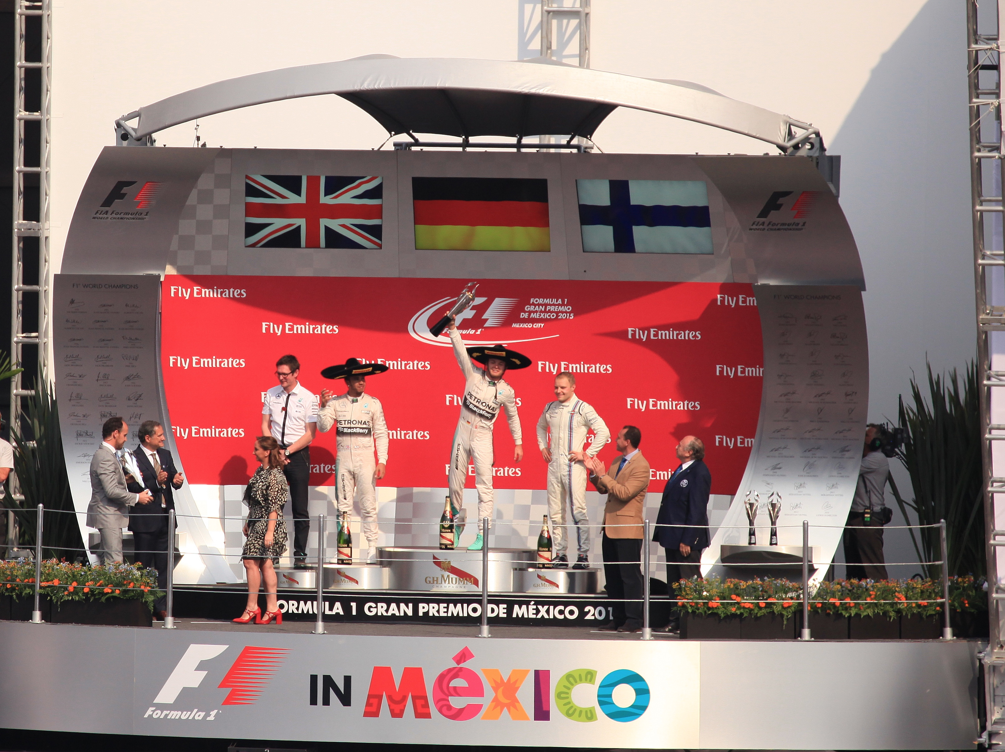 Podium ceremony at the 2015 Mexican Grand Prix